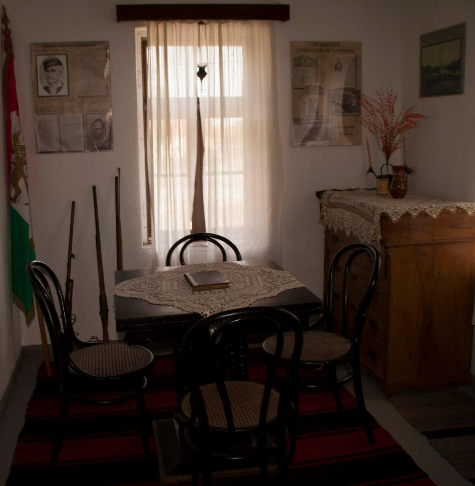 House-museum of Filip Totyu, Dve mogili, Bulgaria